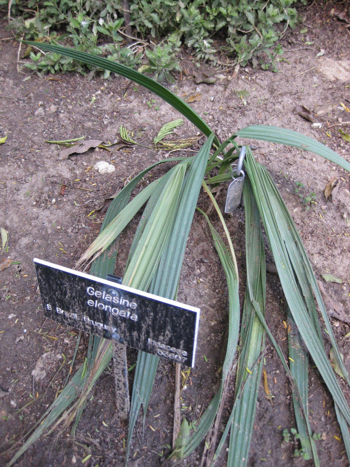 Photographed at Huntington Gardens (Los Angeles, California) in March